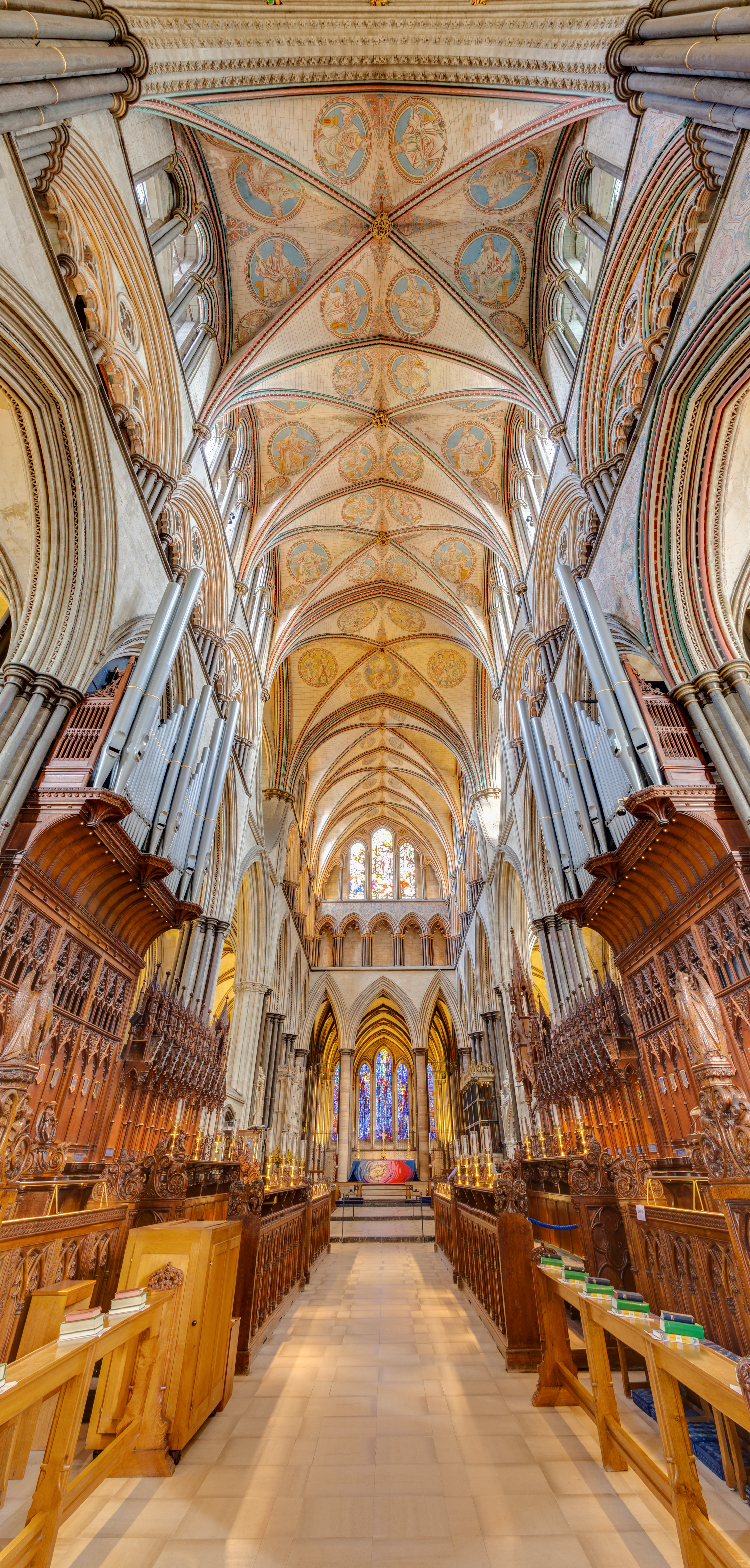 Salisbury Cathedral, Salisbury, England